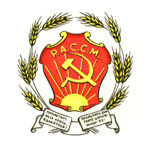 RASSM coat of arms (1929)